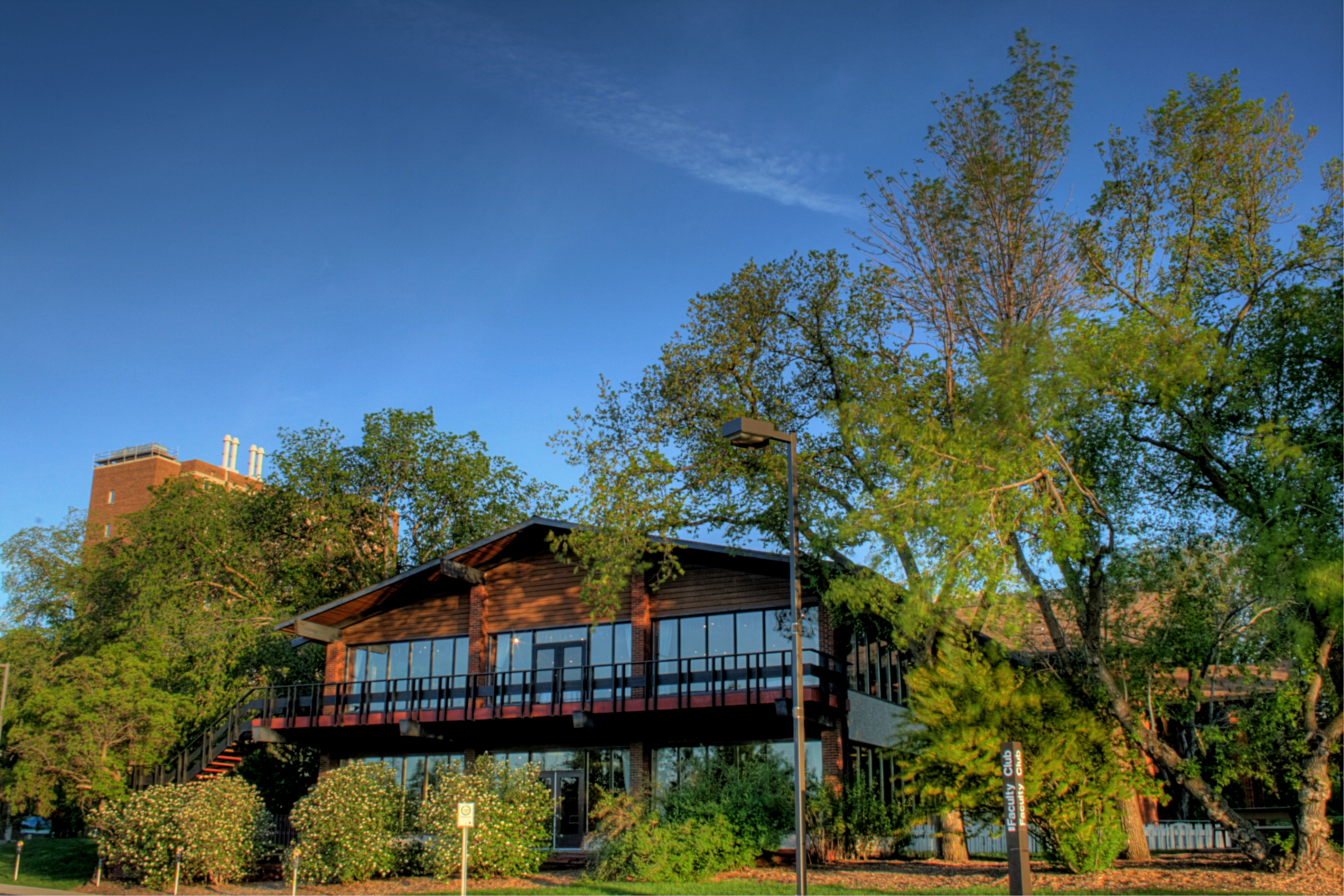 The Faculty Club building on the north campus of the University of Alberta in Edmonton, Alberta, Canada.